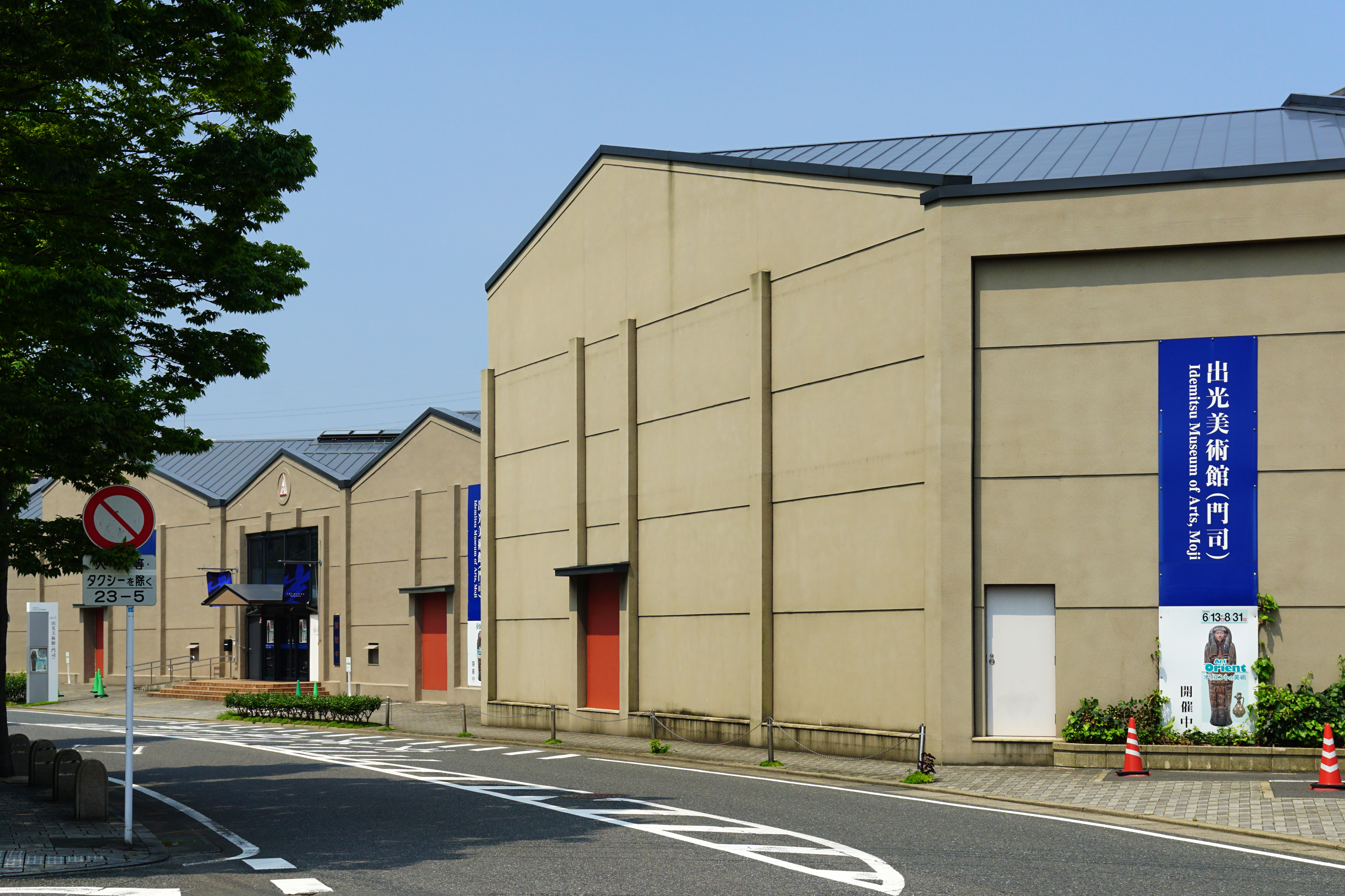 Idemitsu Museum of Arts in Kitakyushu, Fukuoka prefecture, Japan.